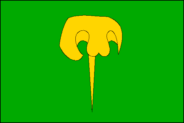 Municipal flag of Cheznovice village, Rokycany District, Czech Republic.